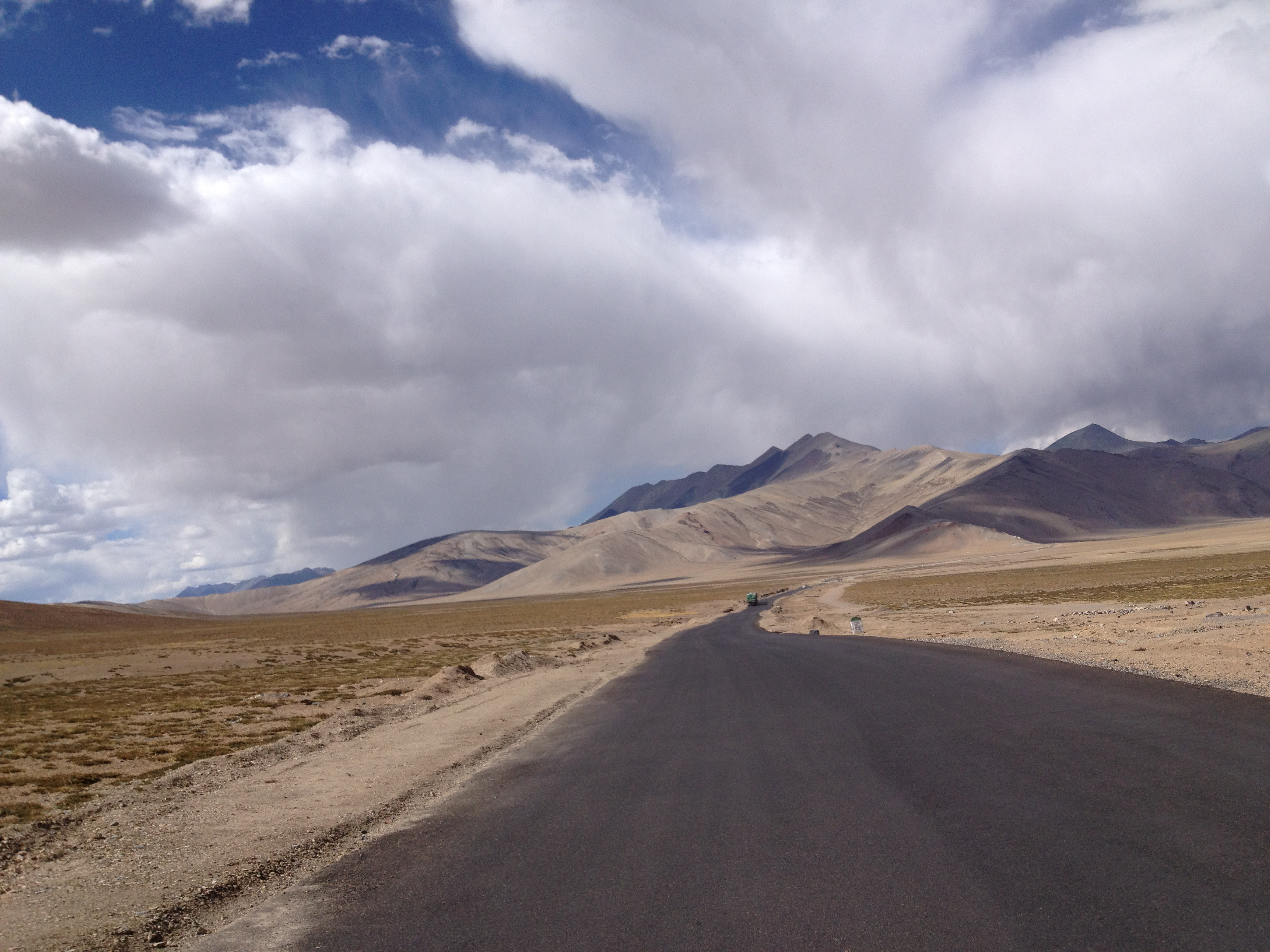 A road in the More Plain, Quiet and beautiful